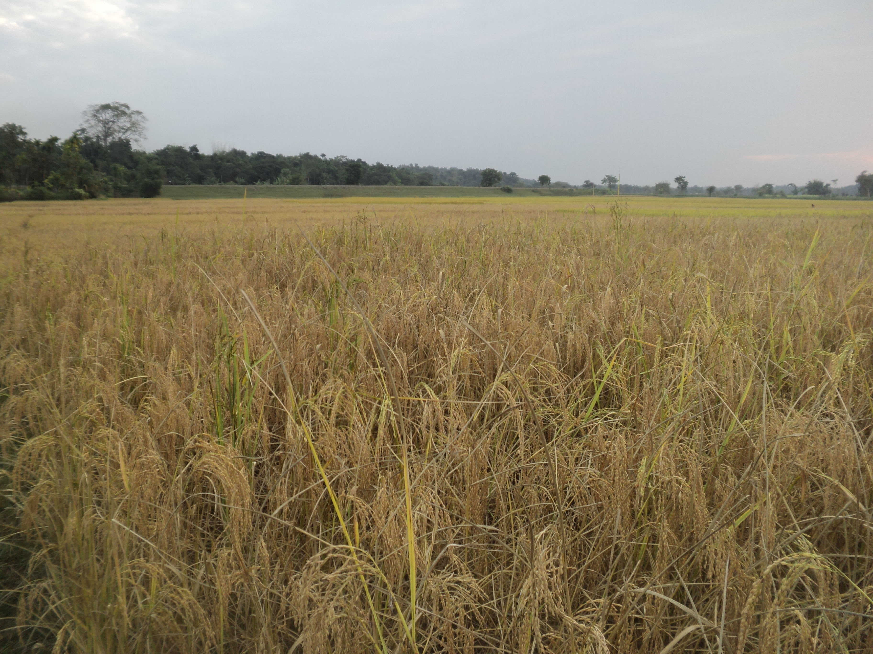 A Rice field in a Village of Karimganj District, Assam.